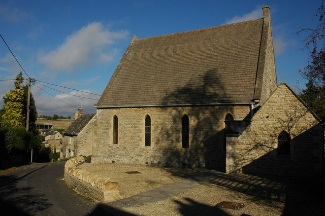 Methodist church, Stonesfield, Oxfordshire: built in 1867 as a Wesleyan Methodist chapel